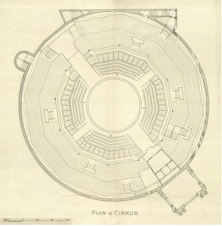 Plan of the Circus Building in Copenhagen, Denmark